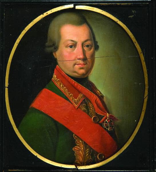 Chertkov Vasiliy Alexeevich